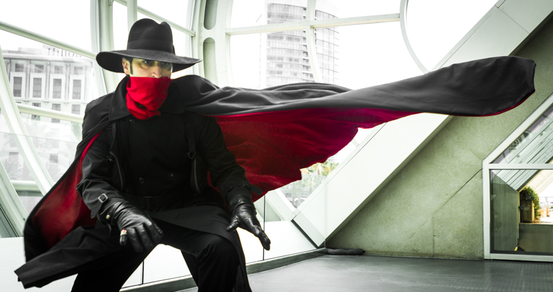 This is a photograph of a Cosplayer dressed as the character "The Shadow" created by Walter B. Gibson. The photo was taken by Justin Langley in the common area of the Sand Diego Convention Center during the Comic-Con International: San Diego event.